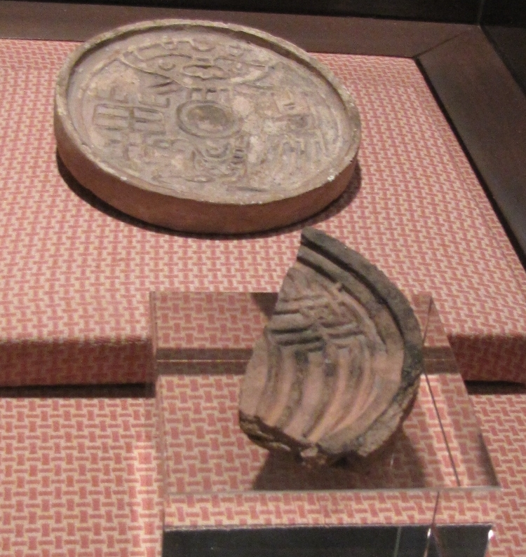 Eaves tiles of Minyue, excavated in Fuzhou